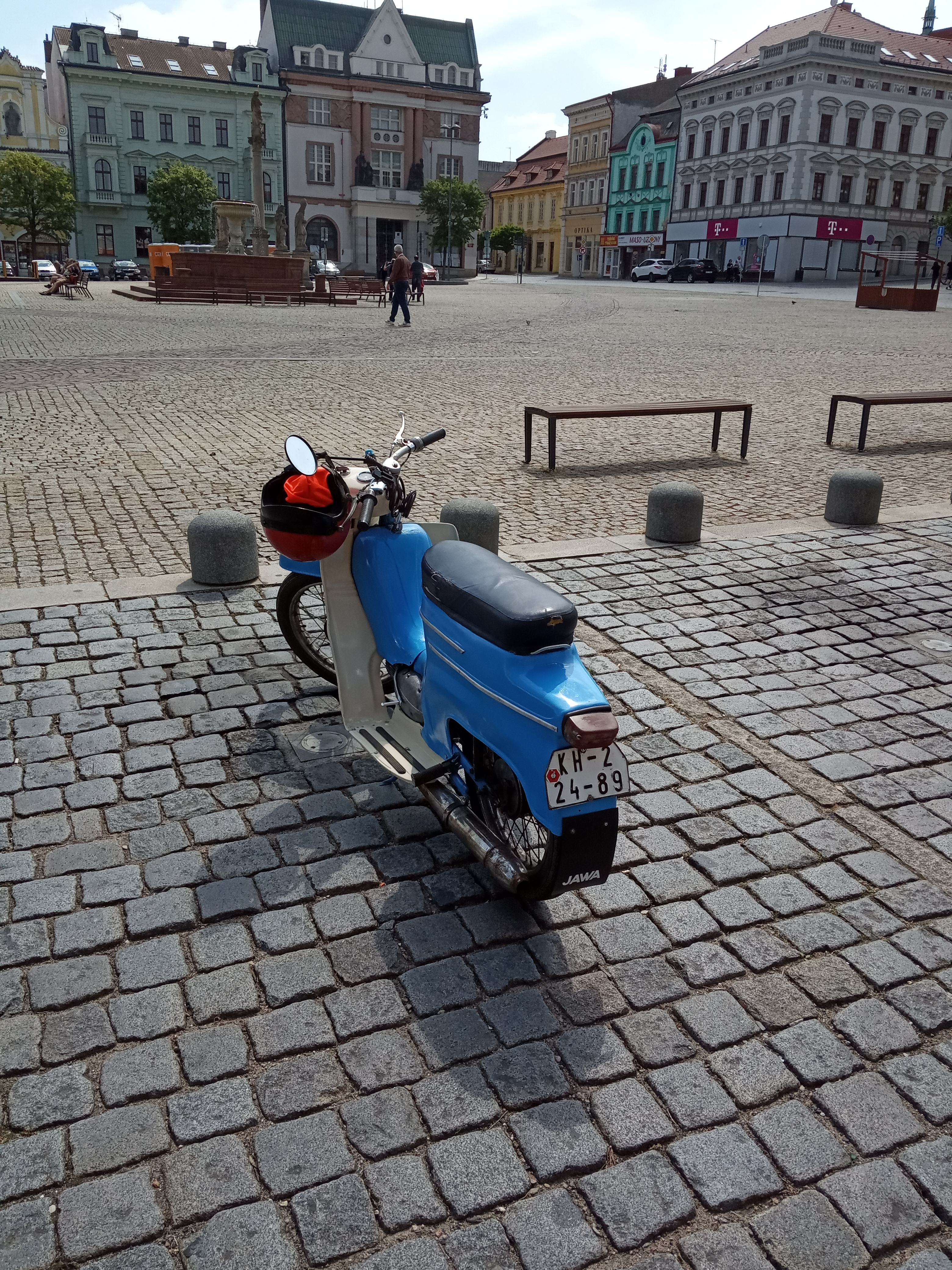 Jawa 20 Pionýr